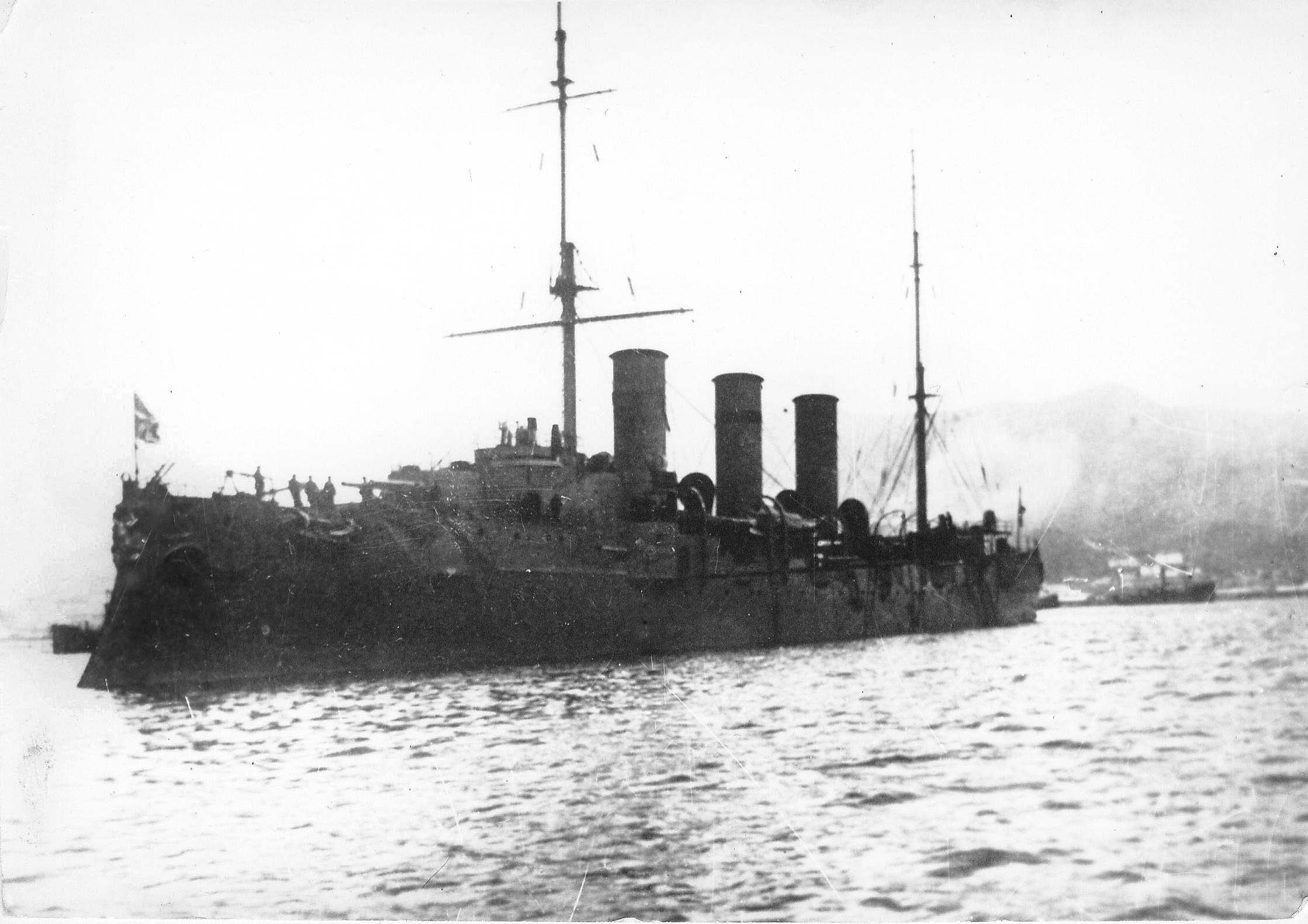 Imperial Russian cruiser Kagul.